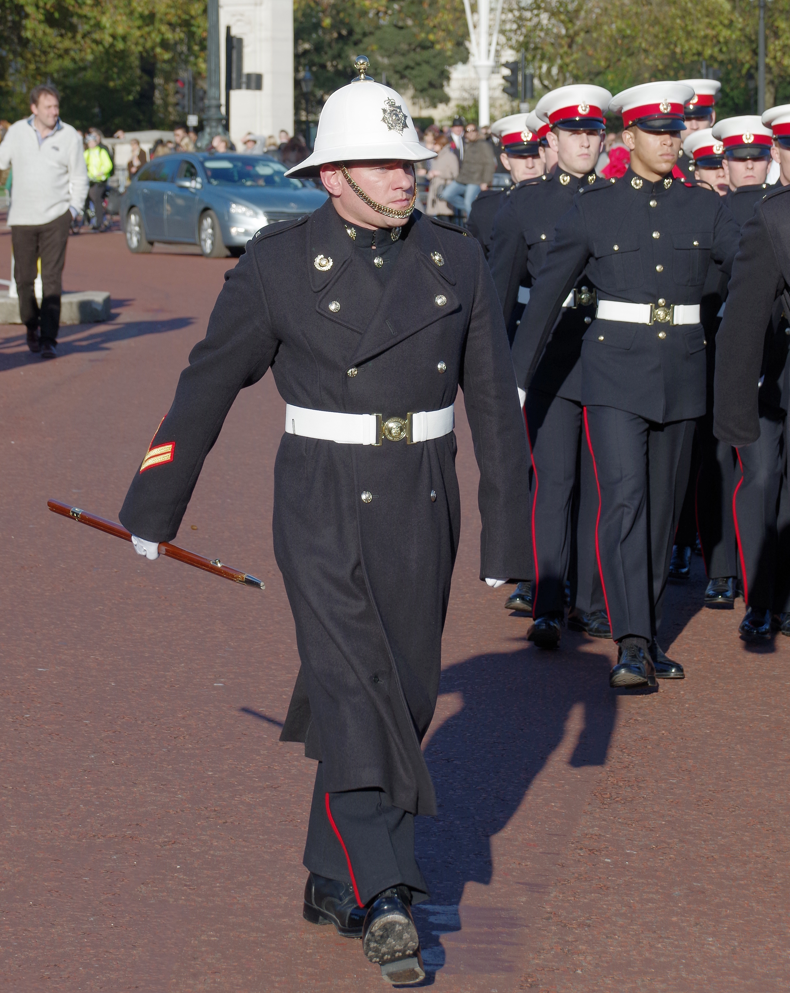 Members of the Royal Marines march past Buckingham Palace.